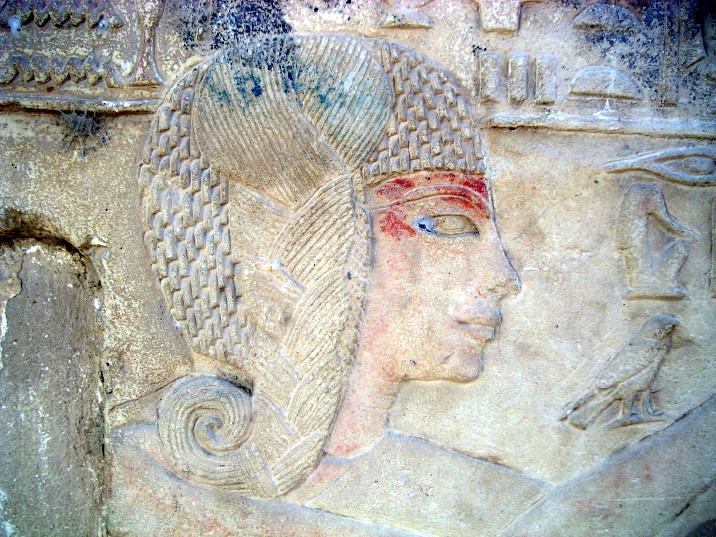 Relief of a Iunmutef priest from Horemheb's tomb - 18th dynasty of Egypt - Saqqara